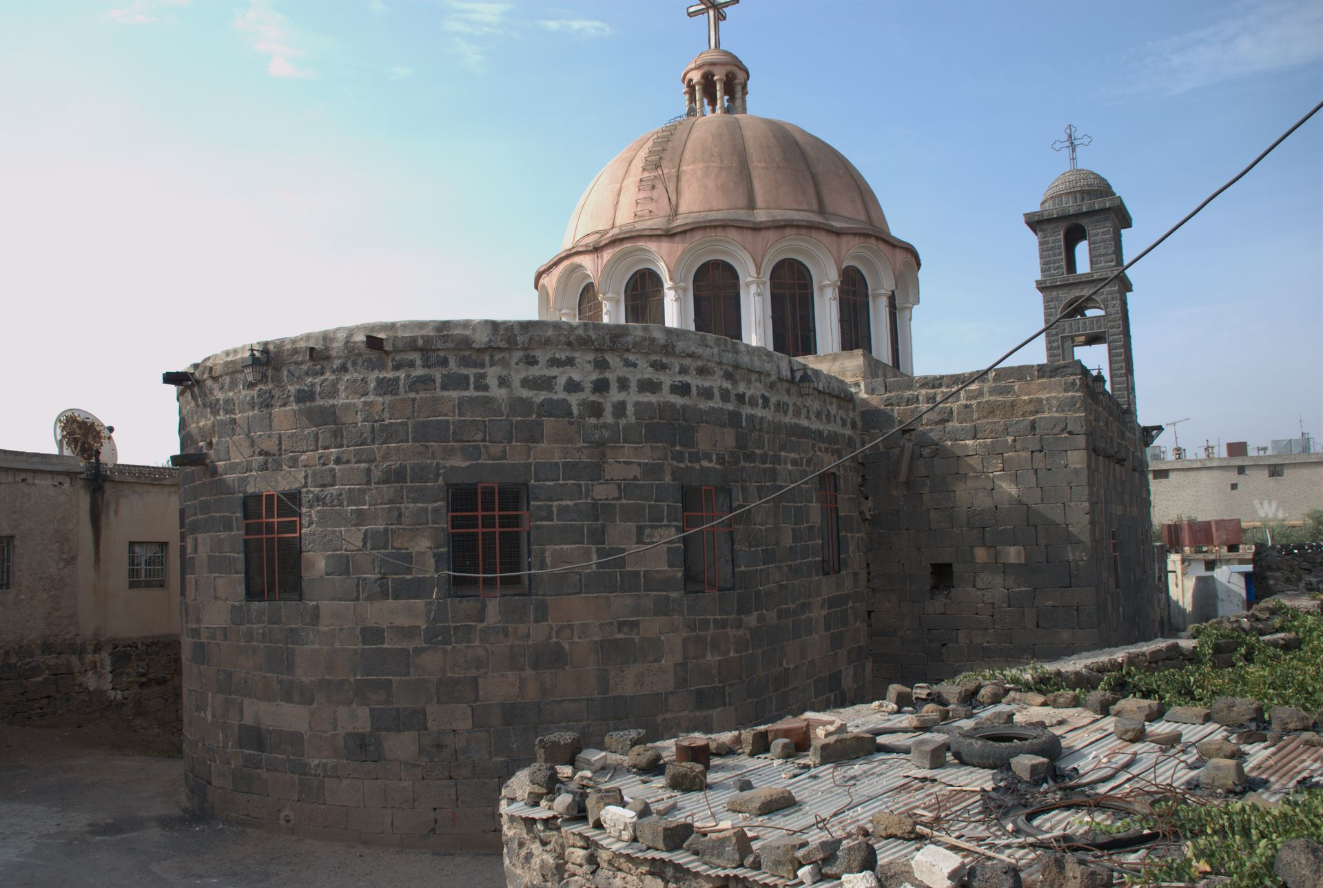 Izra, Syria, church of St Elias